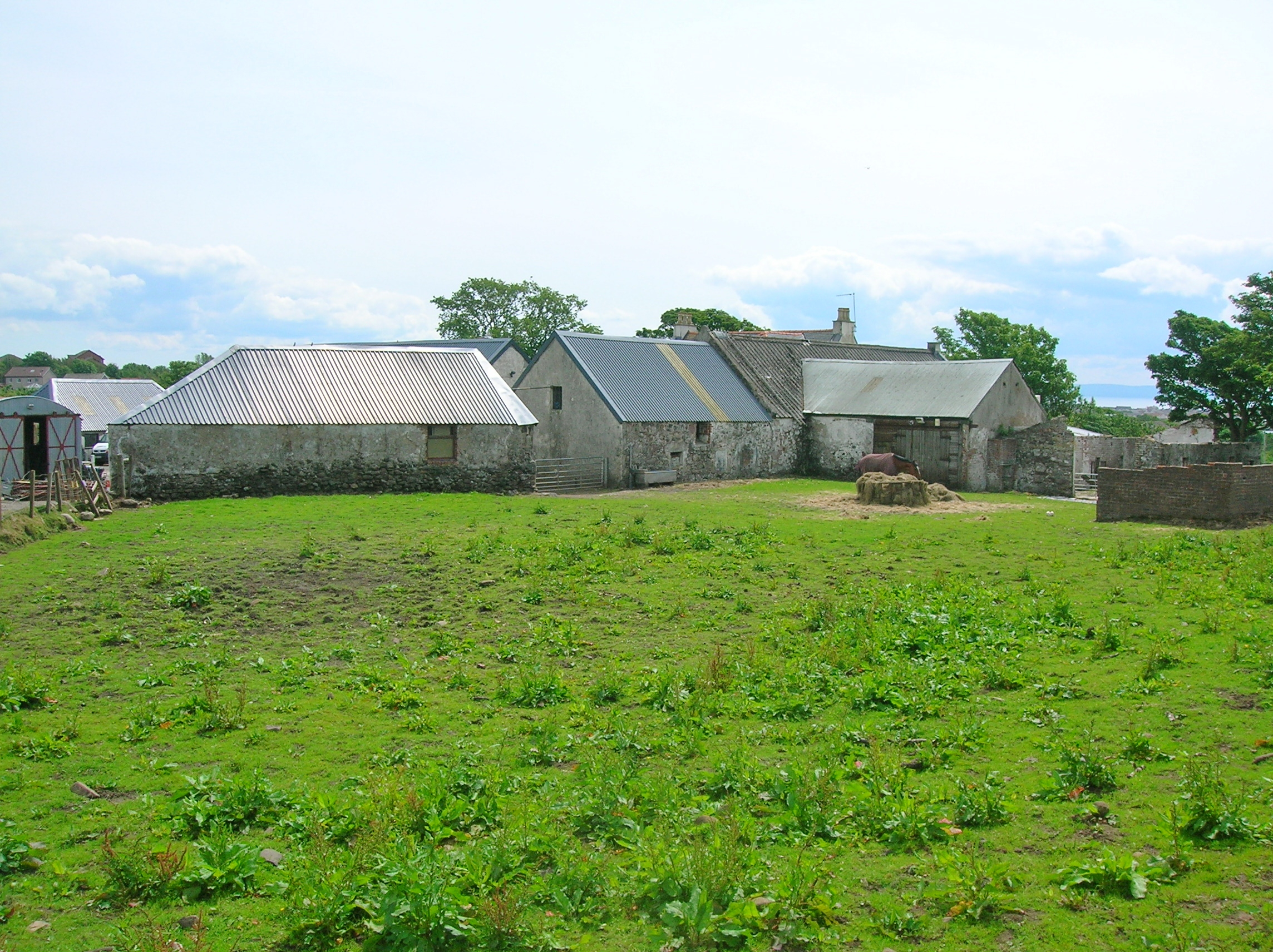 The threshing mill, gathering pond and dam wall, Montfode, Ardrossan, North Ayrshire, Scotland.